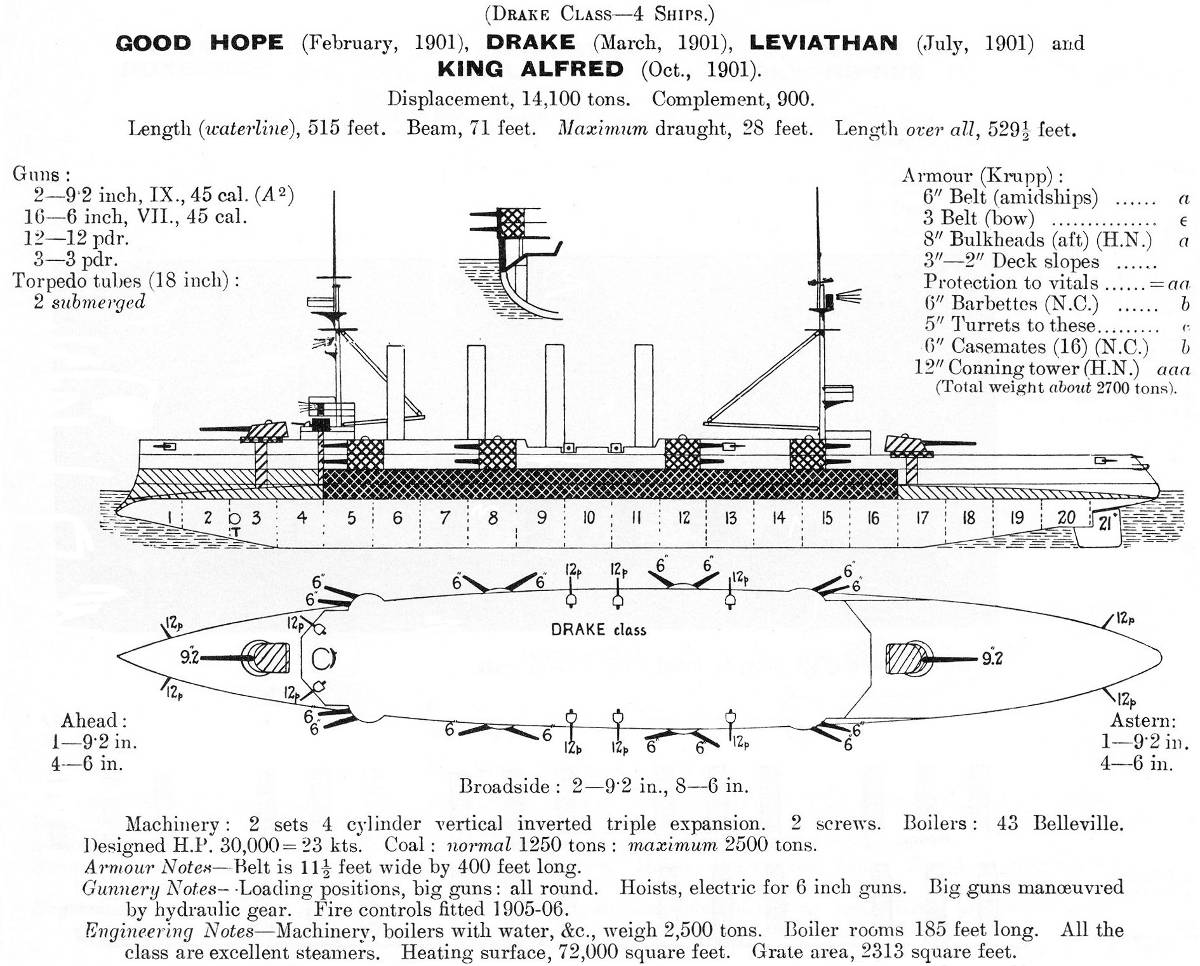 Left elevation and deck plan diagrams depicting British Drake class armoured cruiser.